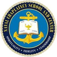 The seal/emblem of the U.S. Naval Chaplaincy School and Center, located on the campus of the Armed Forces Chaplaincy Center, Ft Jackson, Columbia, S. Carolina.